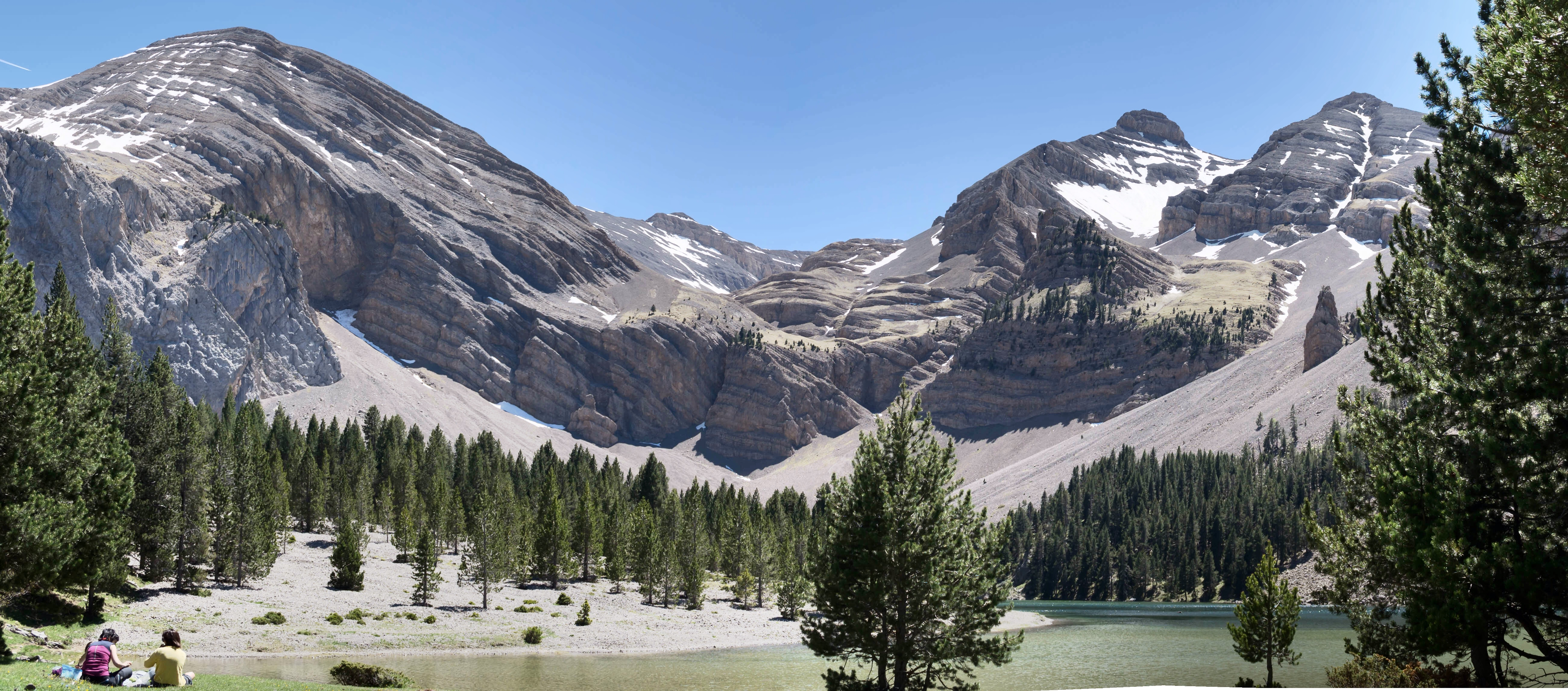 Basa de la Mora This is a photography of a Special Area of Conservation in Spain with the ID: ES2410053. Natura2000 entry, EEA entry